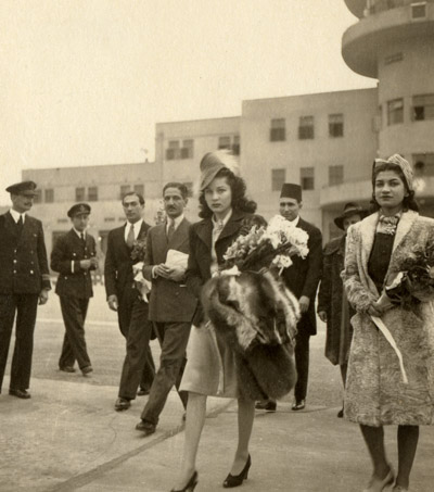 Fawzia of Egypt, sister of King Farouk, at Cairo airport .